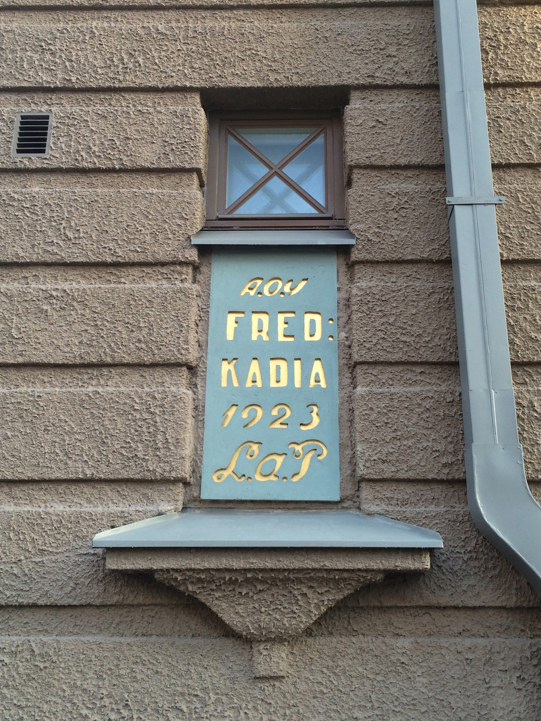 Text "A.O.Y Fred:kadia 1923 L.A.P" on the façade of Arkadiankatu 16, Helsinki. The building was designed by Leuto A. Pajunen and completed in 1923.